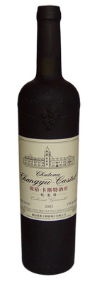 2003 Cabernet Gernischt for the Canadian market.